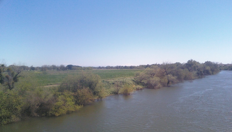 Tuolumne River in West Modesto-Riverdale Park area.